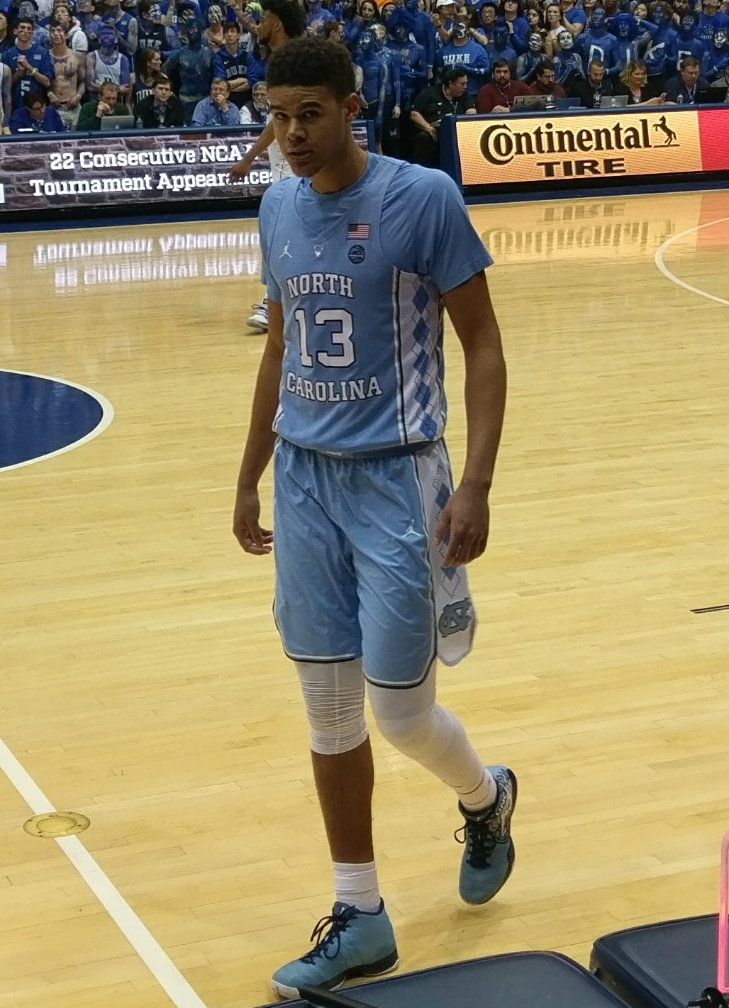 Cameron Johnson of UNC